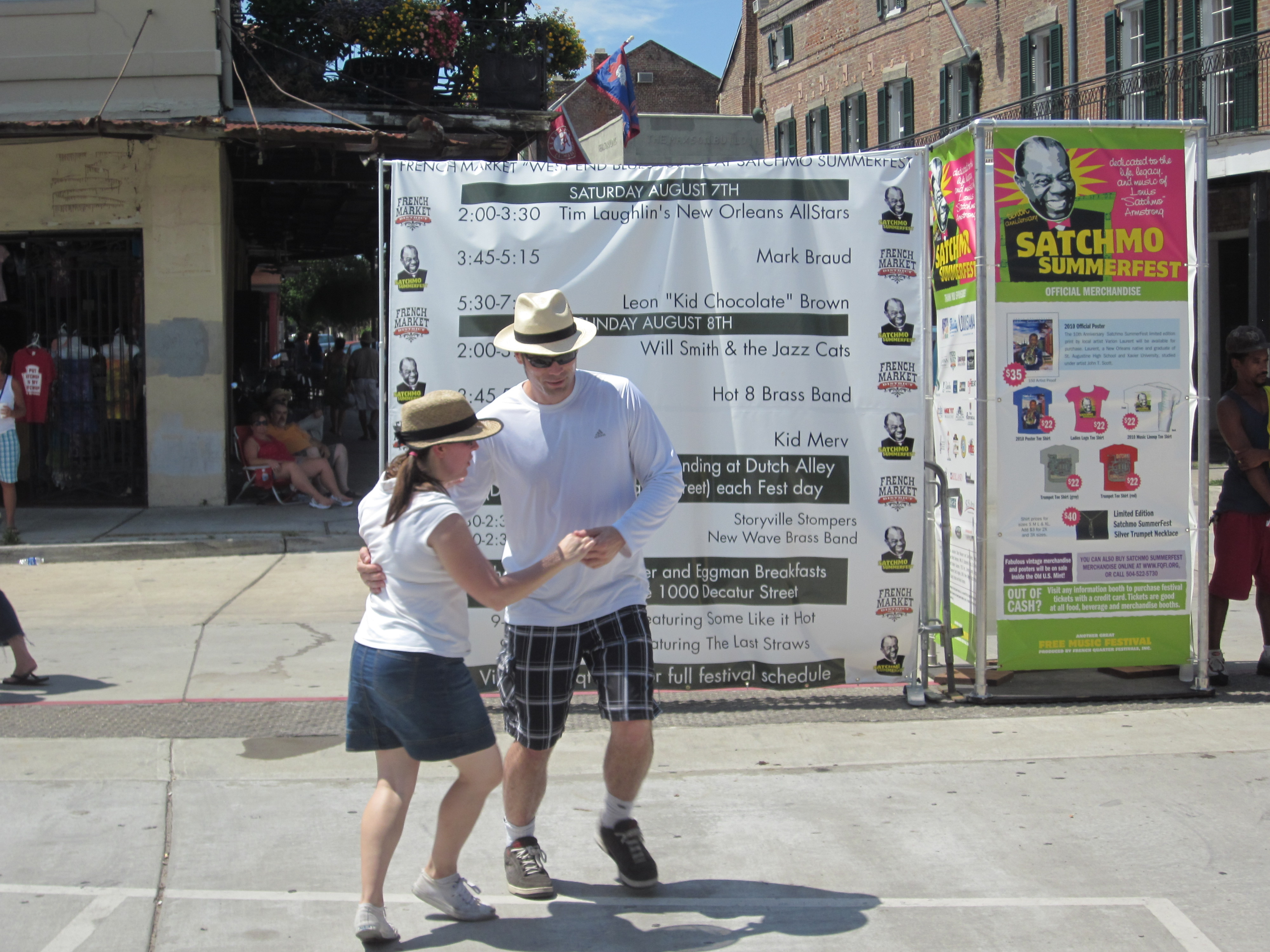 Satchmo SummerFest 2010, French Quarter, New Orleans.